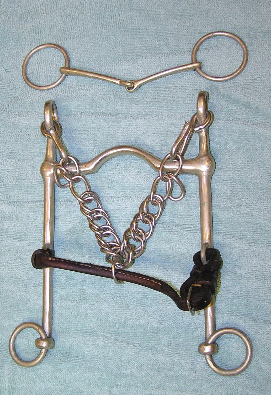 Curb (Weymouth) bit and snaffle bridoon, saddle seat style bits